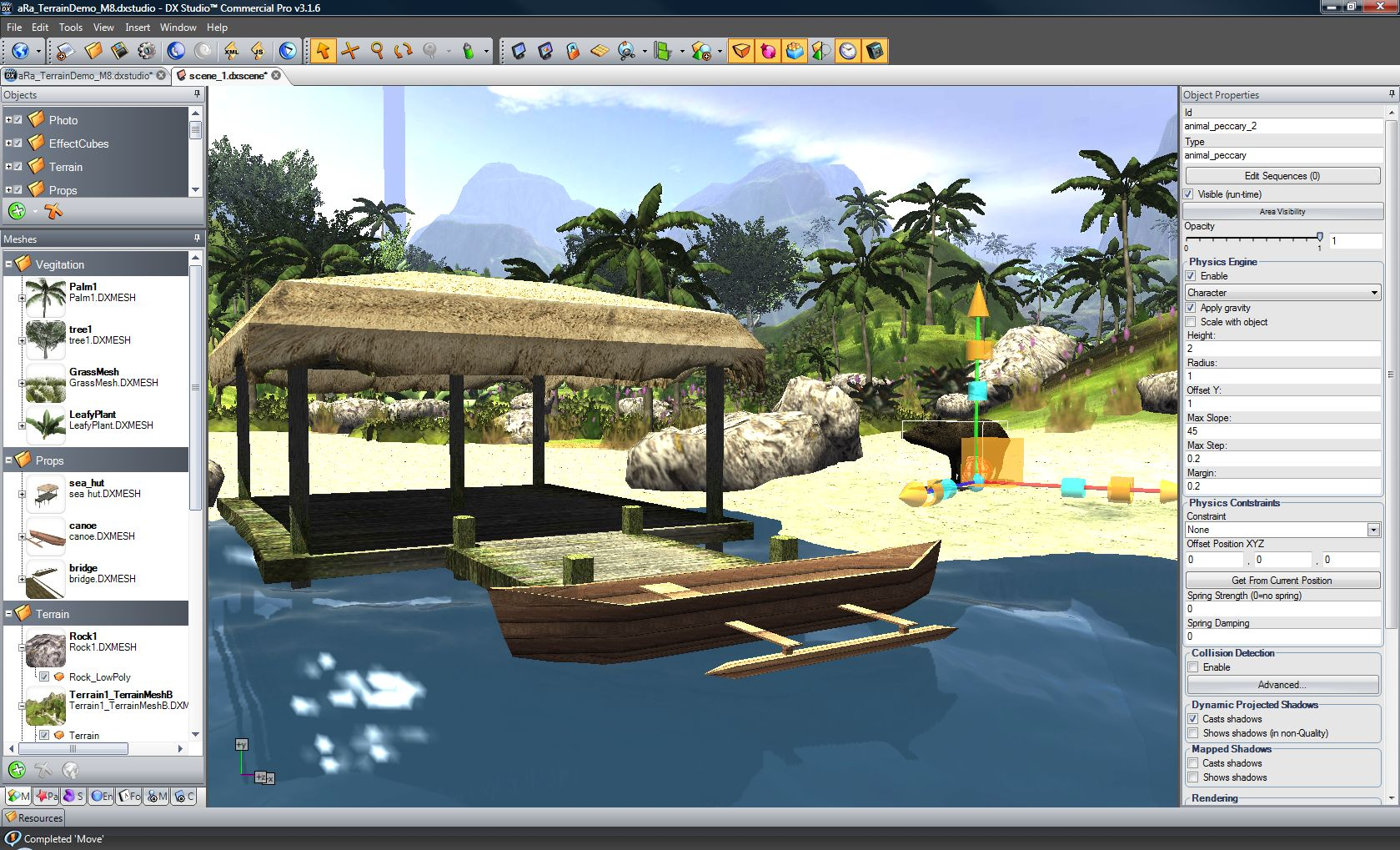 A screenshot of the DX Studio editor.